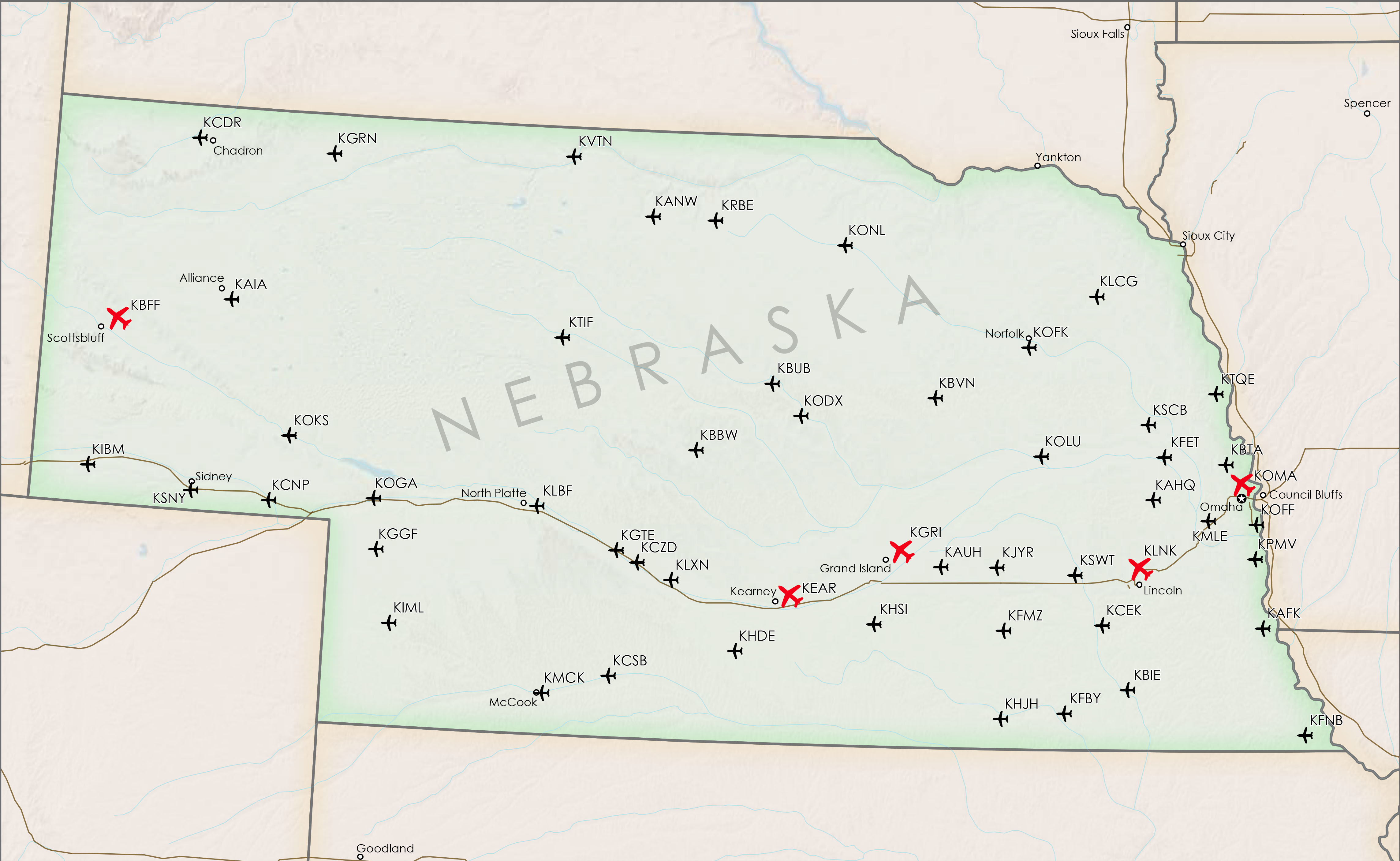 A map of Nebraska's airports with major airports highlighted in red.